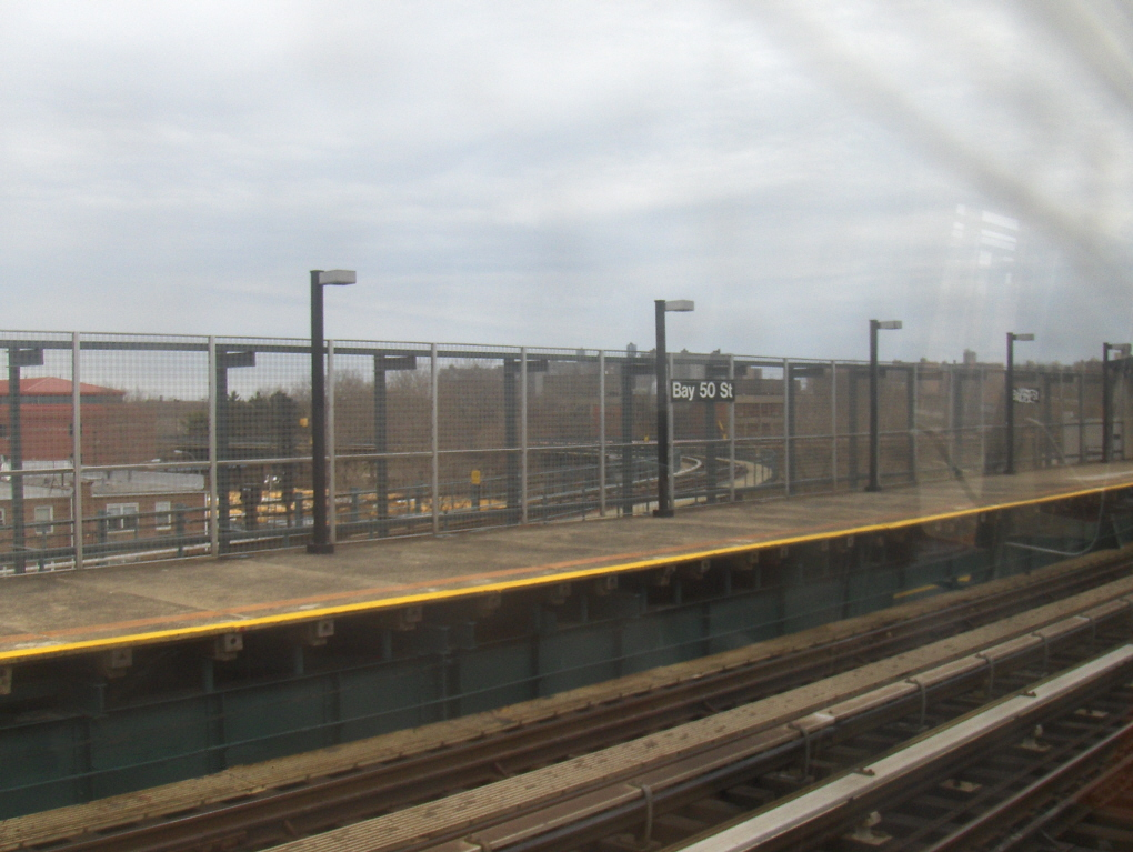 Bay 50th Street on the BMT West End Line. Lead track goes to Coney Island shop.